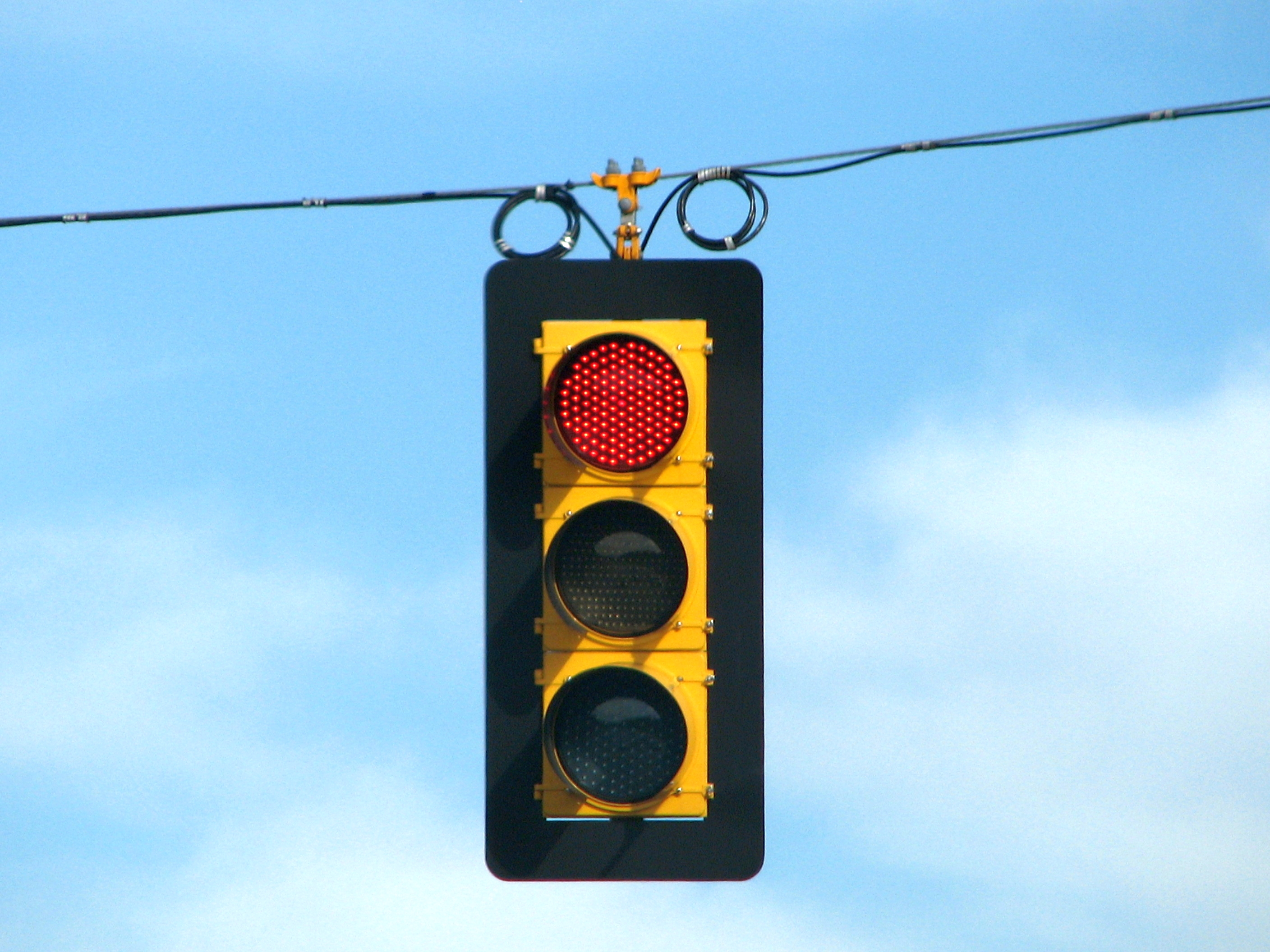 A close up view of a traffic light illuminating red for stop using light-emitting diodes (LED) in North Carolina, United States.